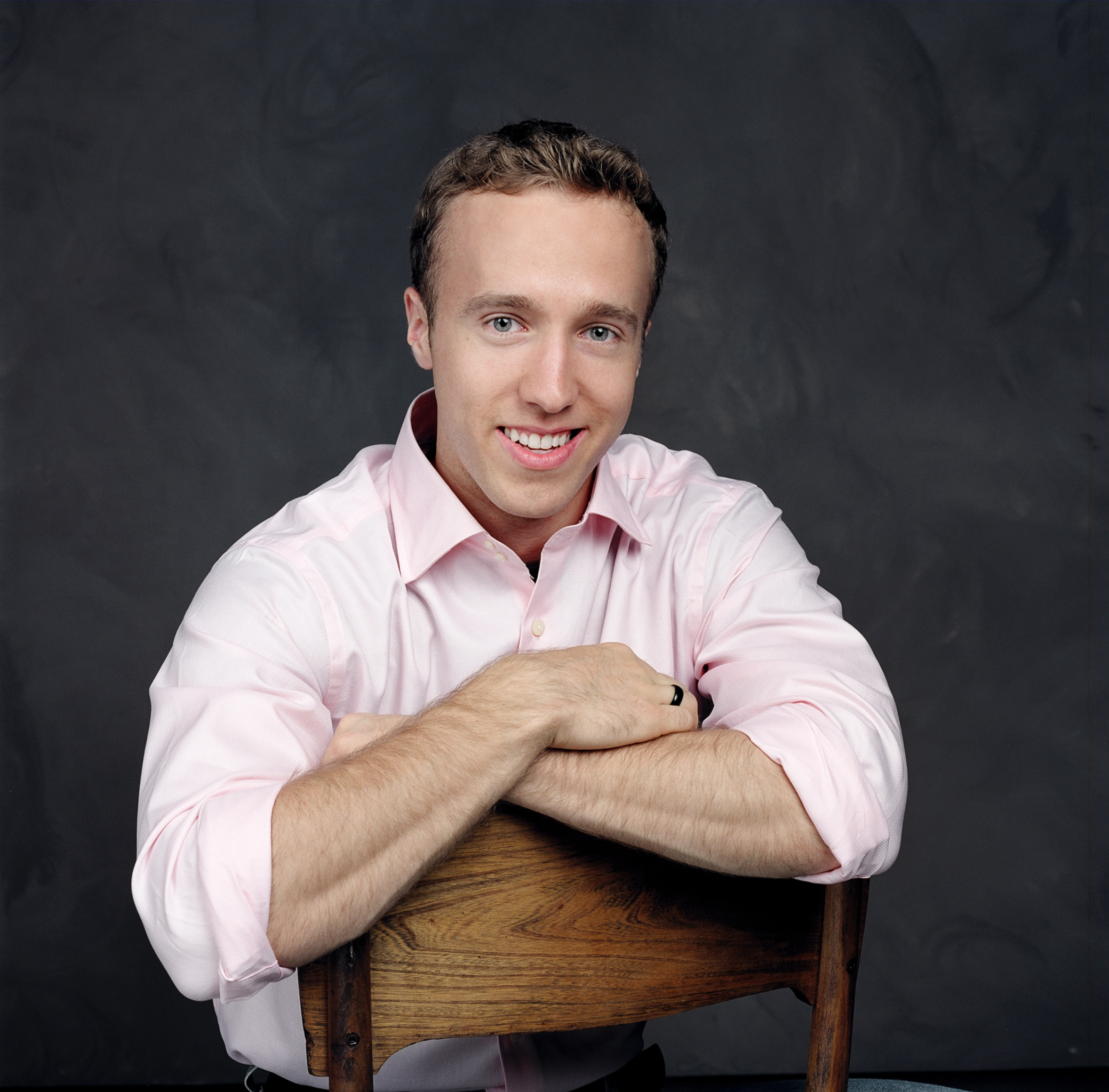 Craig Kielburger, co-founder of Free The Children